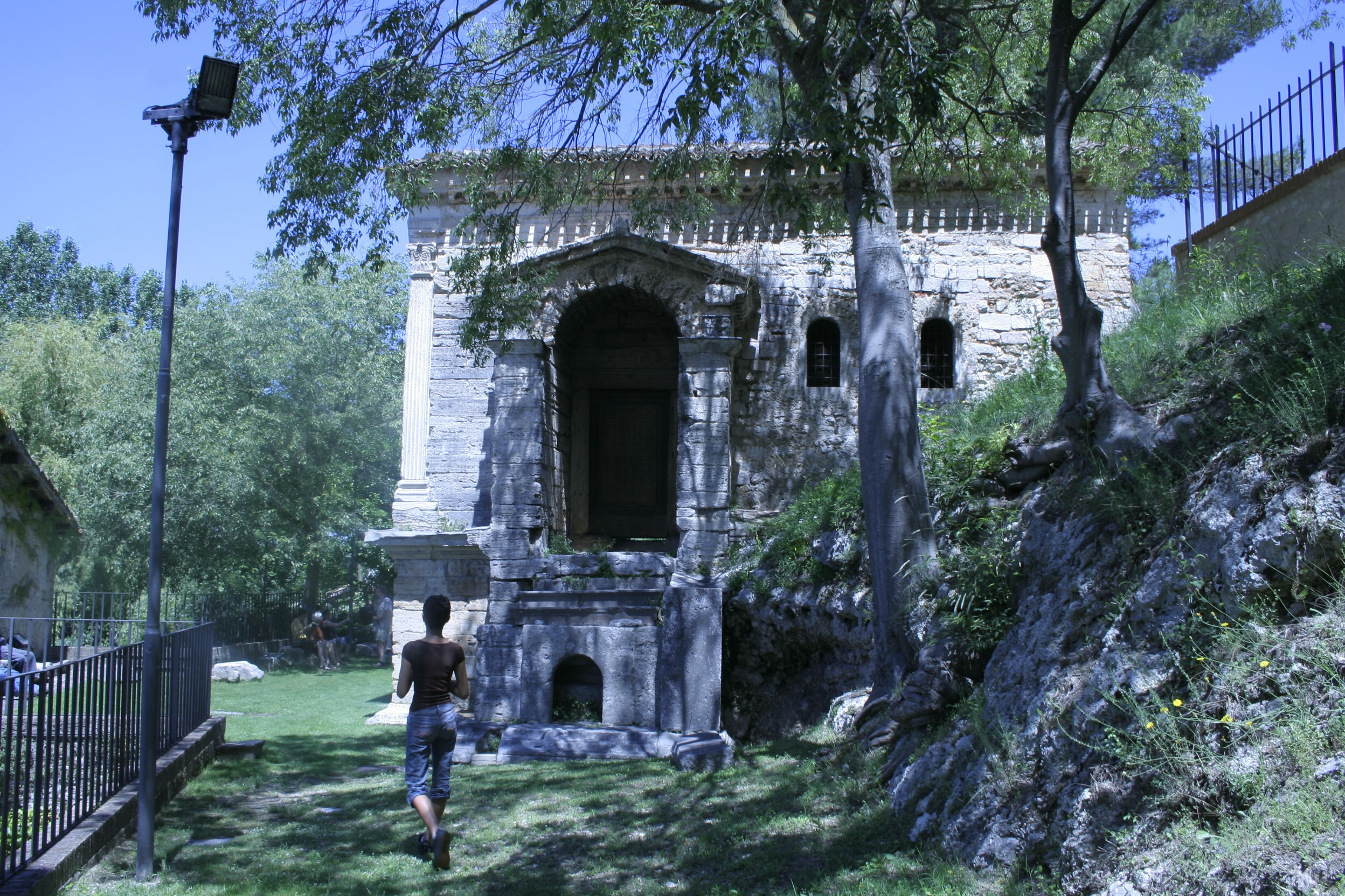 Tempietto del Clitunno